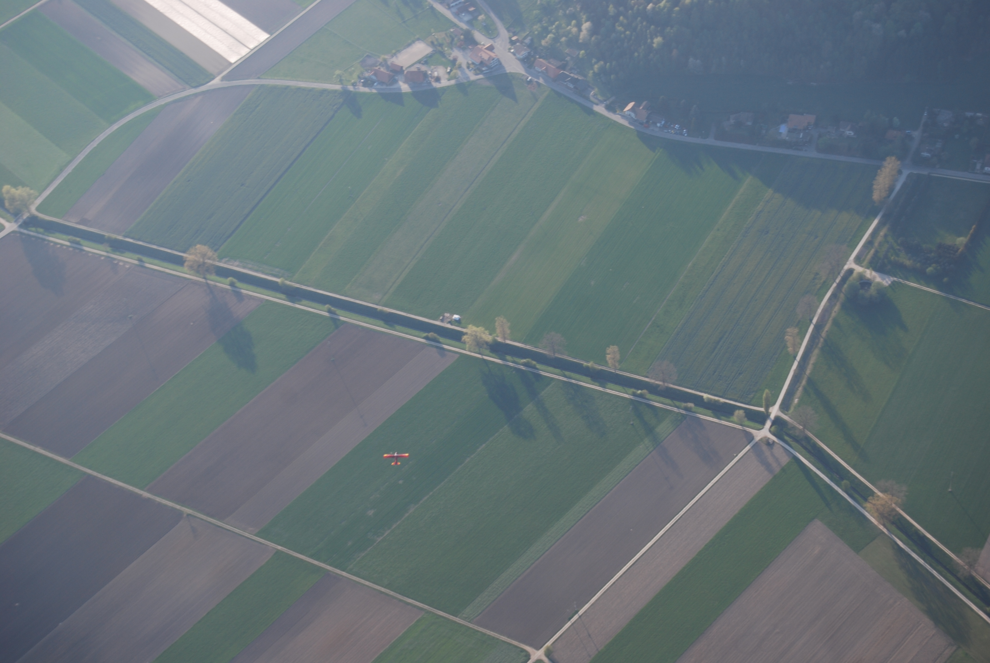 Aetingen (at the top of the picture the village Brittern), canton of Solothurn, Switzerland